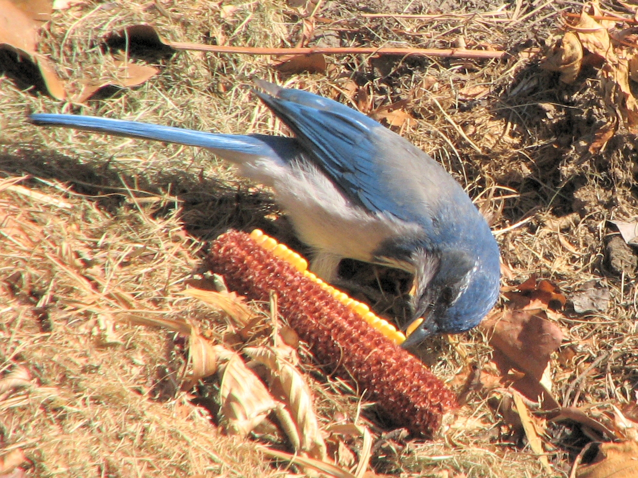 A question for the Canon Powershot S2 IS experts: Why do I get that red outline at the edge of the corn. I've seen that other places too, usually when the sun is very bright. We call this guy the "king of the hill" because whenever we put out corn and peanuts, he chases the other jays away and grabs most of them. What he doesn't eat, he buries for later use. My first day of shooting with my tele-converter lens since I learned how to use it. Click here for Cornell Ornithology Lab's description of the western scrub-jay This is part of the Western Scrubjay set